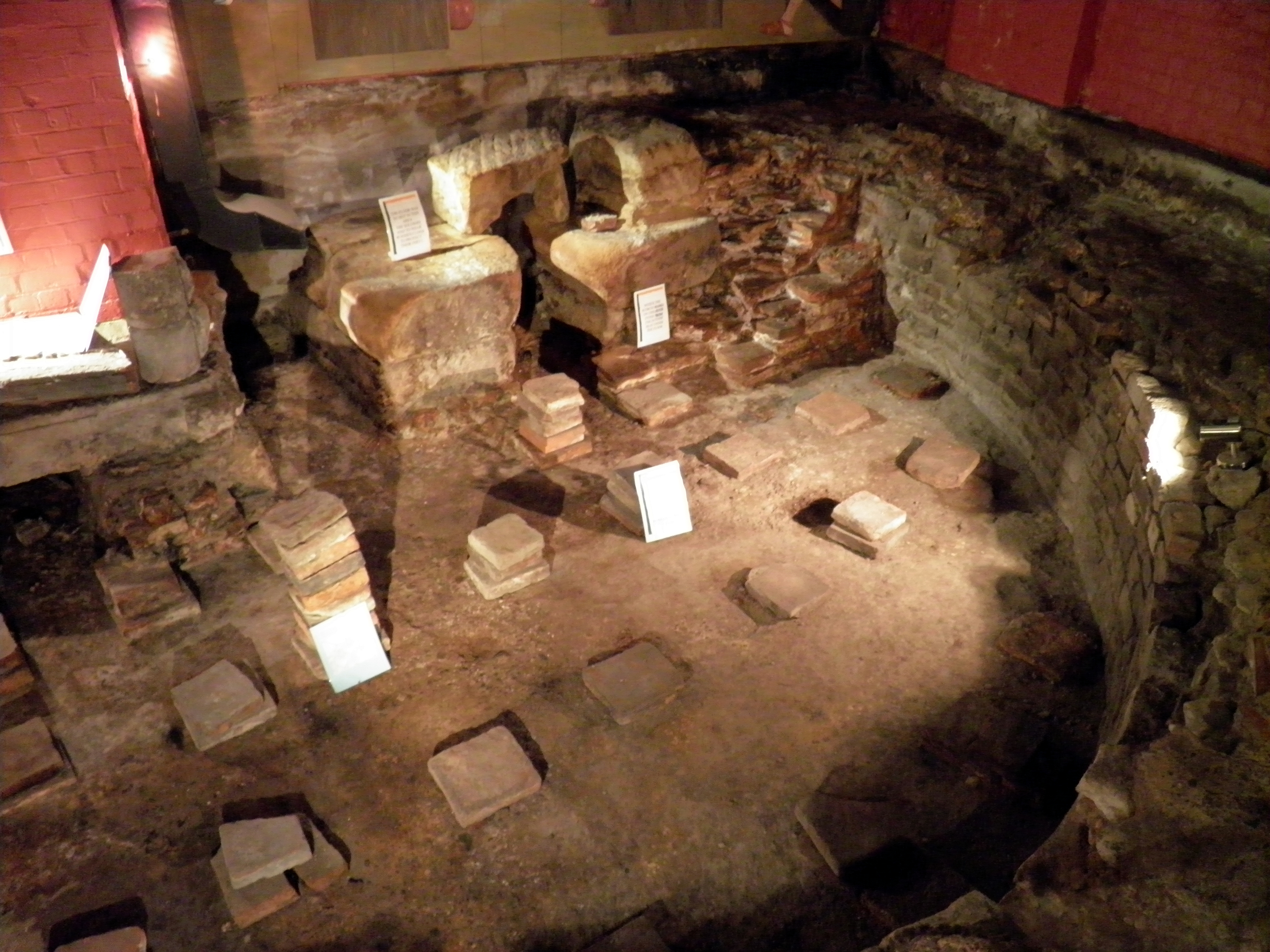 During routine re-development work a Romancaldarium, steam bath, was excavated. This well preserved semi-circular bath has steps at both ends and a nearby plunge pool. Tiles show actual footprint indentations and also an insignia of a Roman legion; believed to be that of the famous 9th legion, who founded Roman Eboracum in AD71.